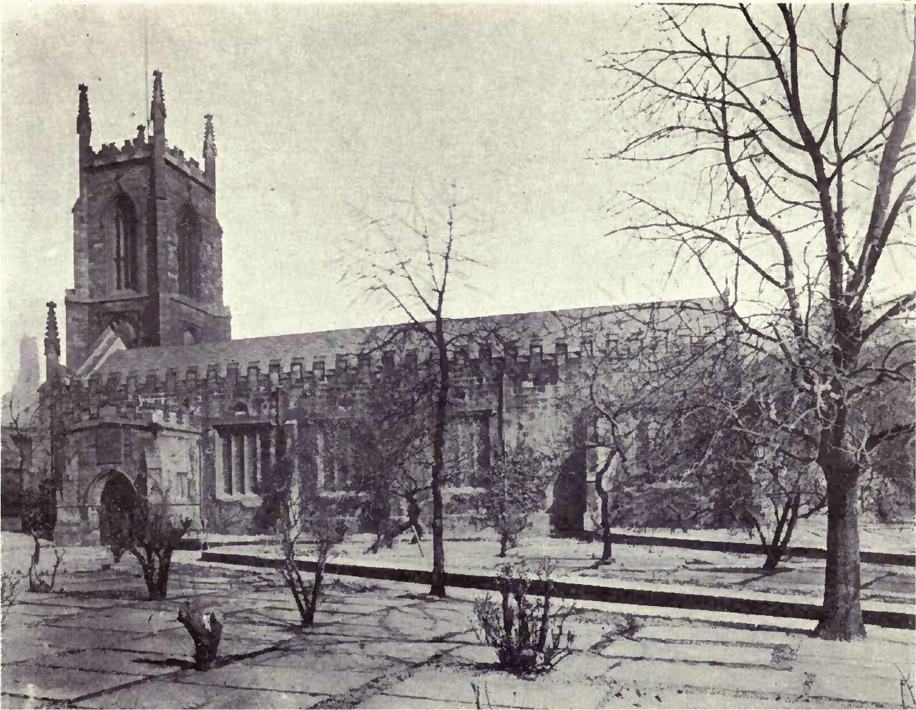 St John the Evangelist parish church, Leeds, circa 1919